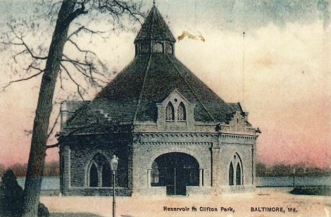 Reservoir in Clifton Park, Baltimore, Md., postcard depicting Baltimore's Clifton Park Valve House (built 1888) and the old Lake Clifton reservoir it served.